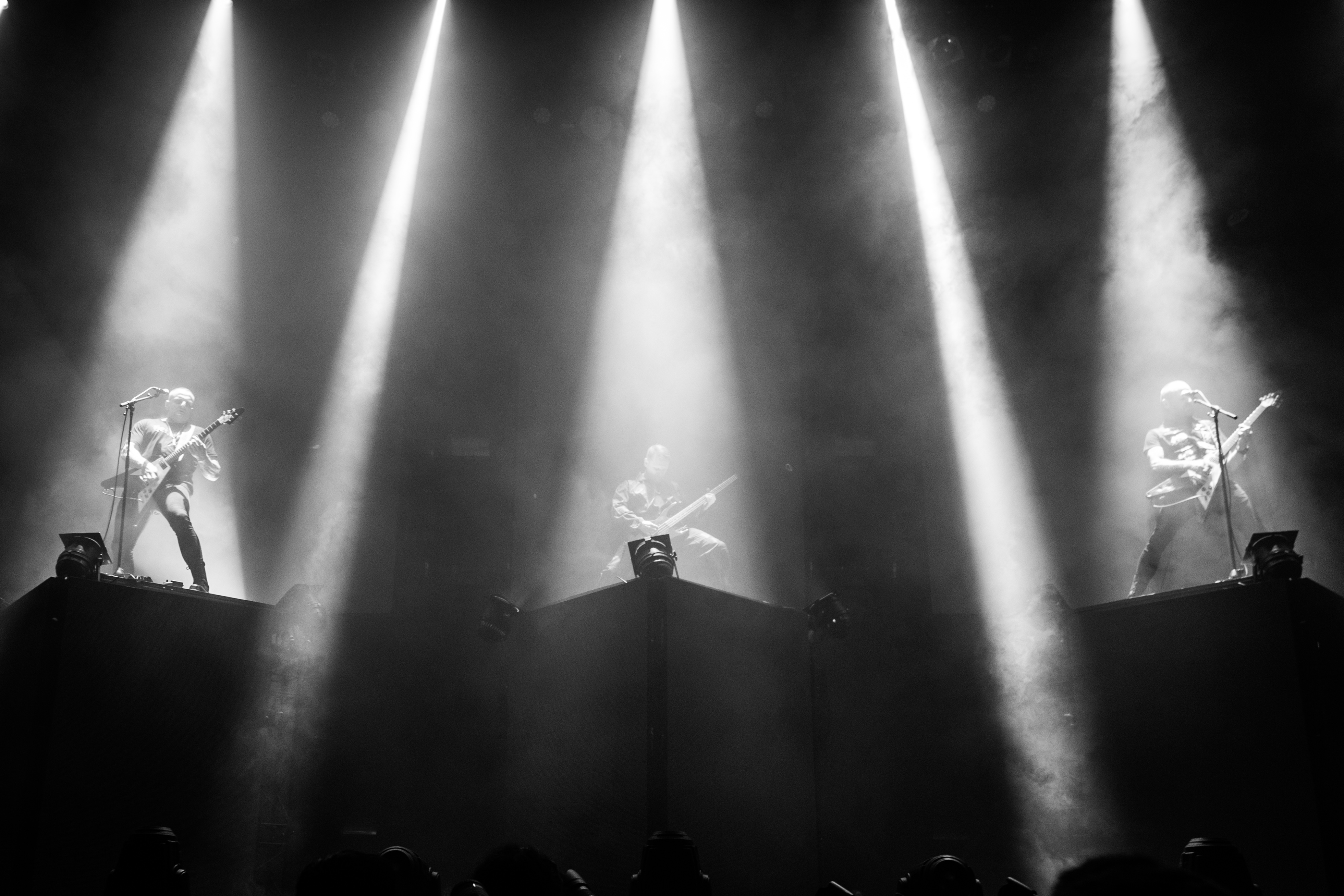 Mysticum live at Roadburn Festival, Tilburg, April 2017